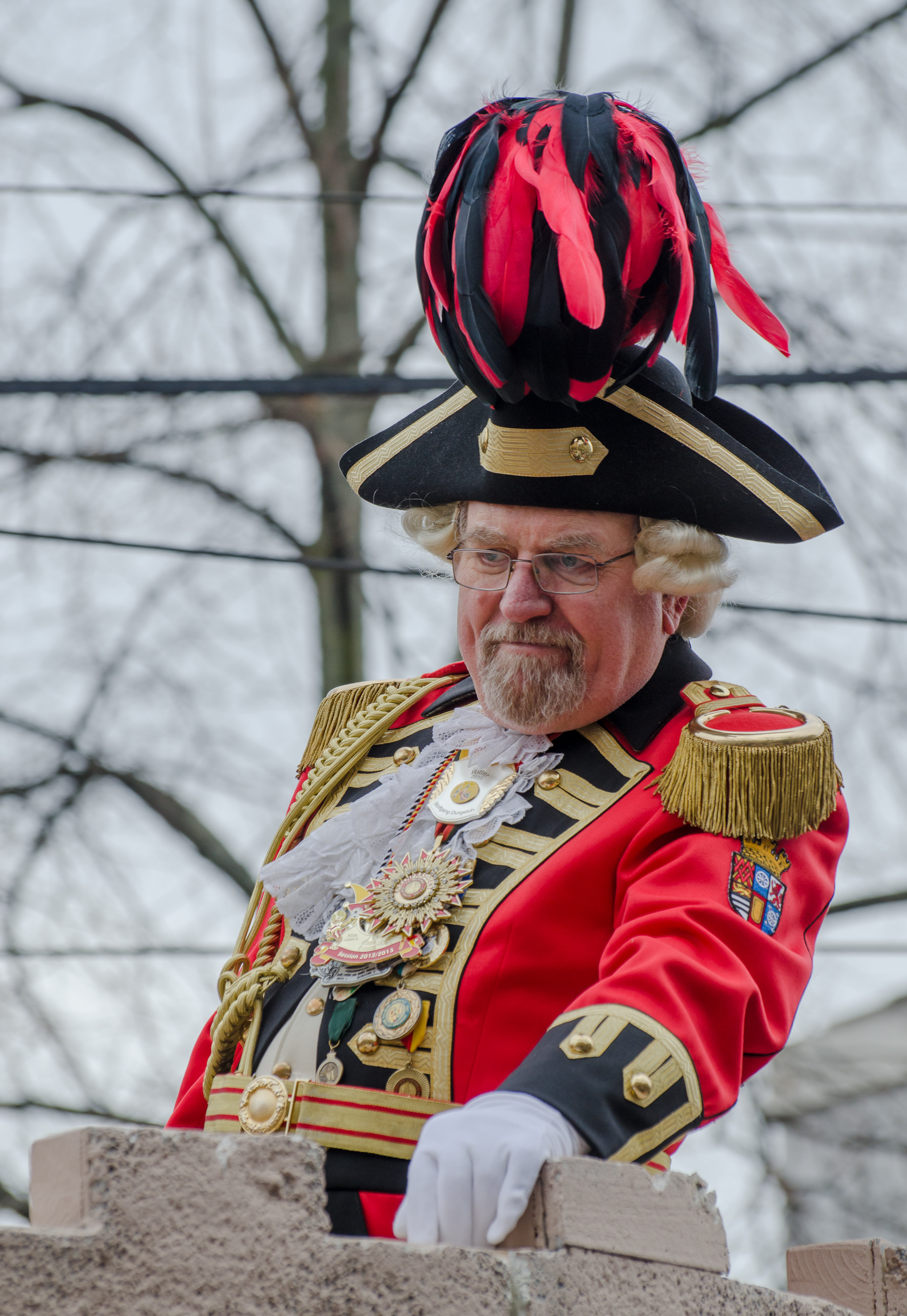 Carnevalistic knight Wolfgang Durgeloh on the Rose Monday's procession of Mülheim an der Ruhr, session 2012/13